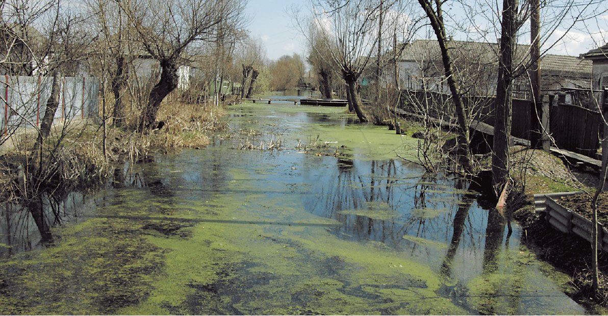 Triturus dobrogicus biotop in Vilkovo